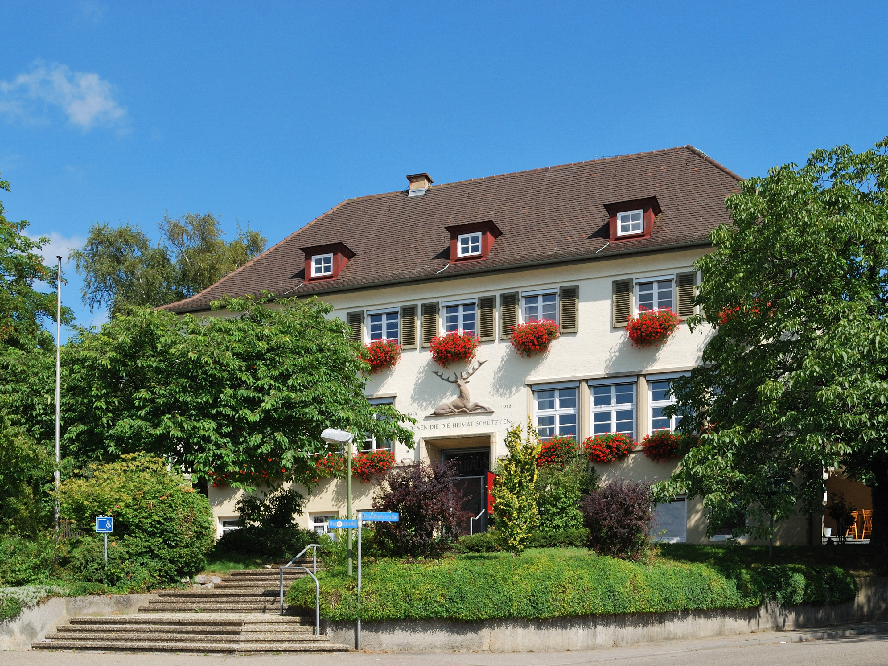 The municipal hall in Hirschlanden in Baden-Württemberg, Germany. The house was built in 1930 as a schoolhouse and an apartment for teacher. It was reconstructed in 1966 and it is used since then as the municipal hall.